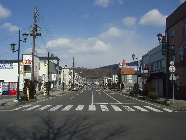 Street from the Noboribetsu Station. Noboribetsu, Hokkidō prefecuture, Japan.